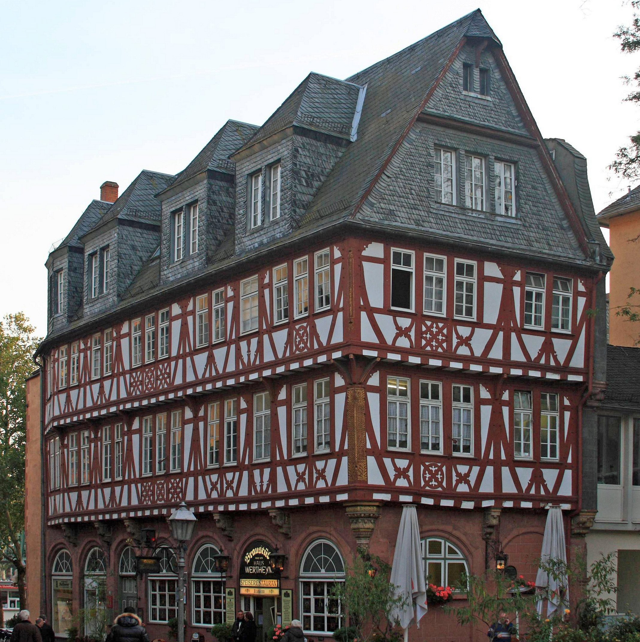 An old half timbered house in Romerberg in Frankfurt